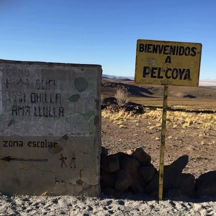 la entrada